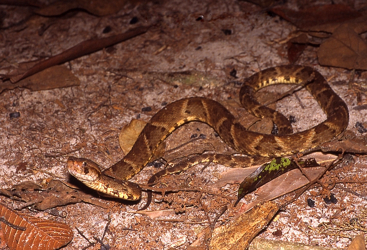 Bothrops atrox